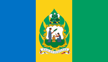 Flag of Saint Vincent and the Grenadines from March to October 1985